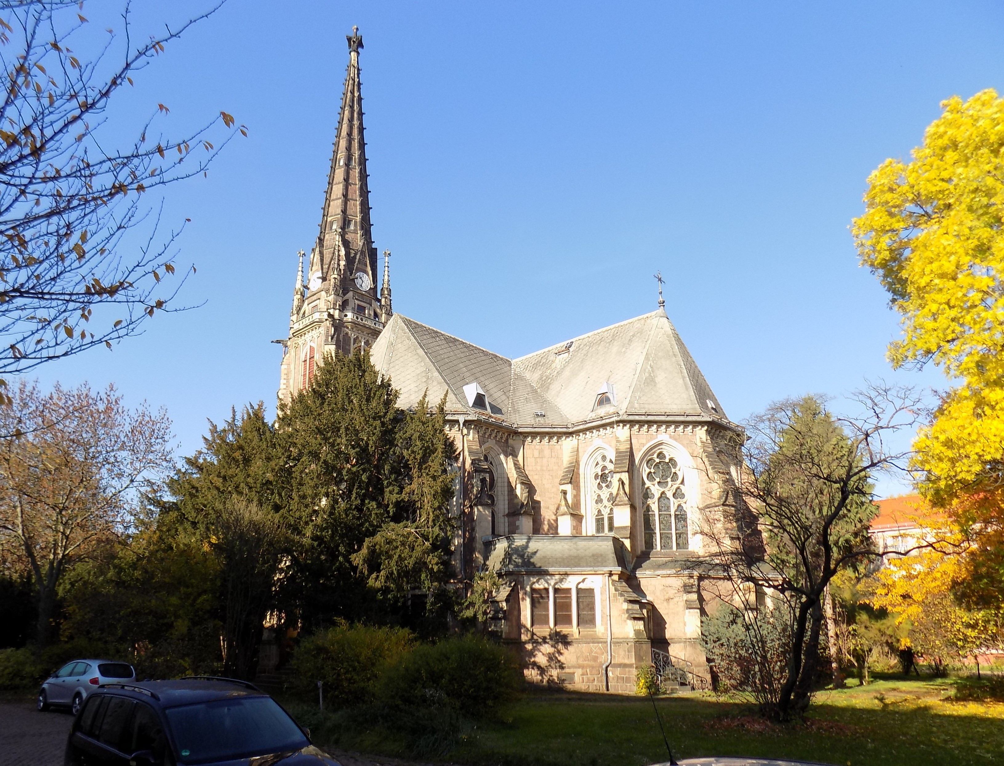 St. John's Church in Cölln (Meissen, Saxony)